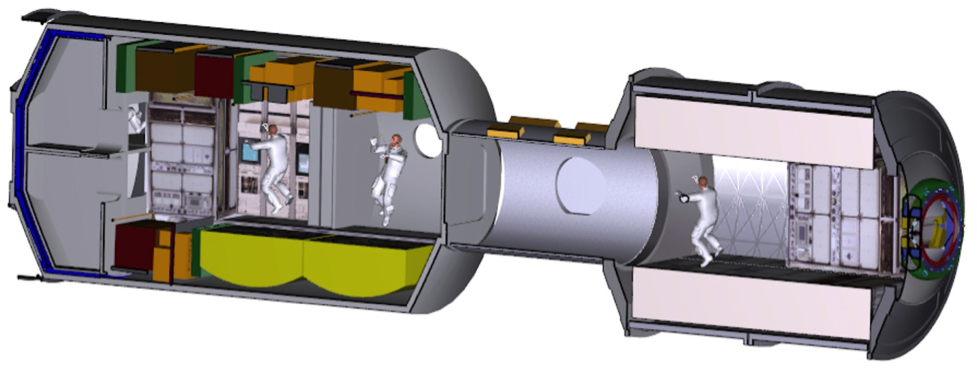 The ISS-derived Deep Space Habitat concept demonstrator evaluation will focus on the following elements, from left to right, Lab/Hab, tunnel, and Multi-Purpose Logistics Module (MPLM).